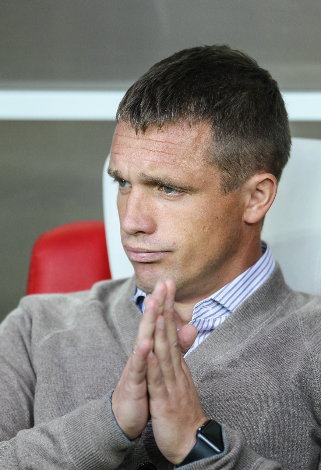 Viktor Goncharenko coaching FC Ufa in a game against FC Spartak Moscow.